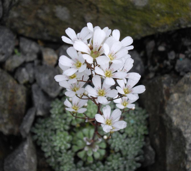 Saxifraga cochlearis 'Minor'